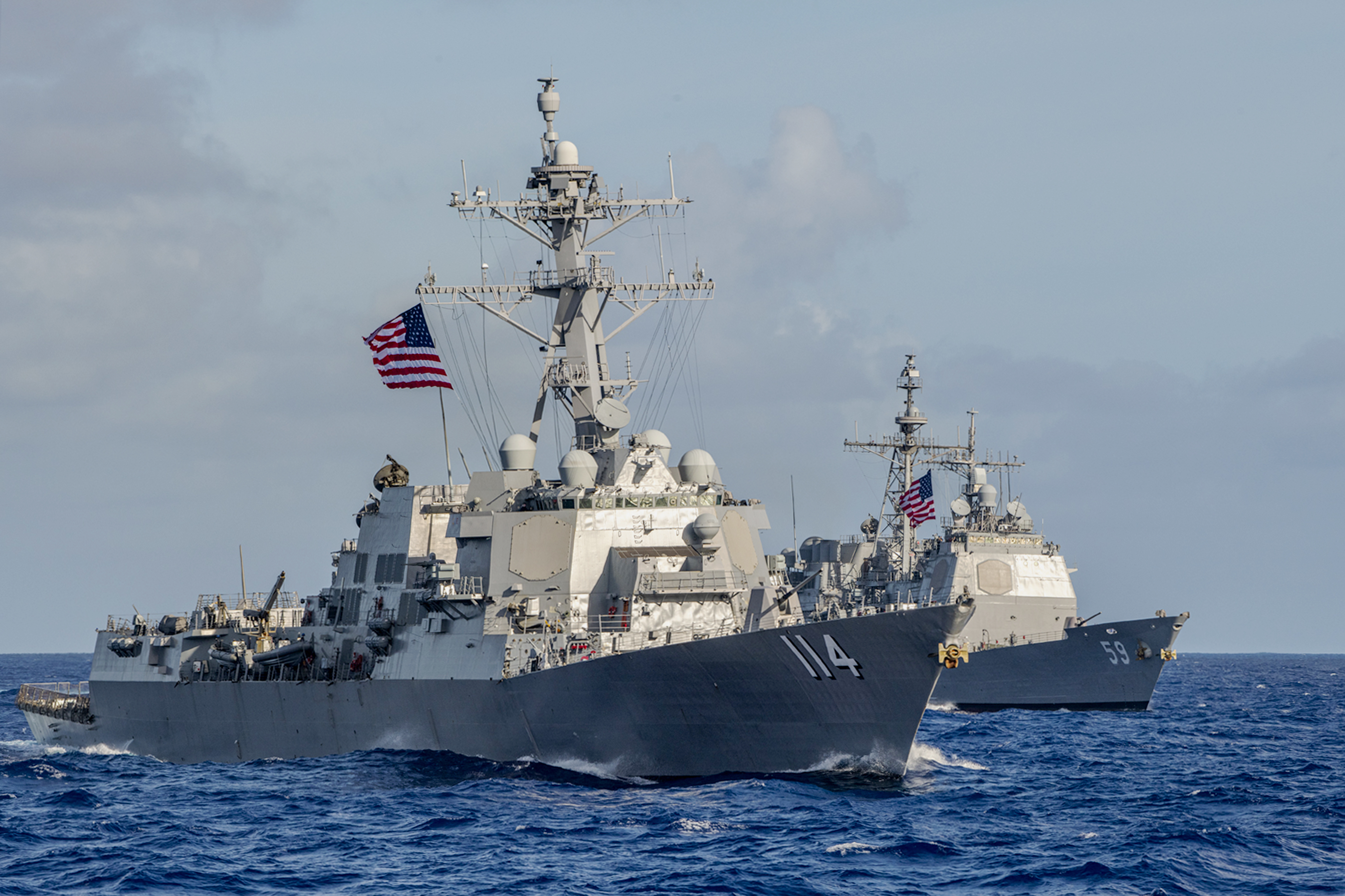 PHILIPPINE SEA (June 23, 2020) The Arleigh Burke-class guided-missile destroyer USS Ralph Johnson (DDG 114) and the Ticonderoga-class guided-missile cruiser USS Princeton (CG 59) steam in formation during dual carrier operations with the Nimitz and Theodore Roosevelt Carrier Strike Groups (CSG). Dual carrier operations unify the tactical power of two individual CSG, providing fleet commanders with an unmatched, unified credible combat force capable of operating indefinitely. The CSGs are on a scheduled deployments to the Indo-Pacific.